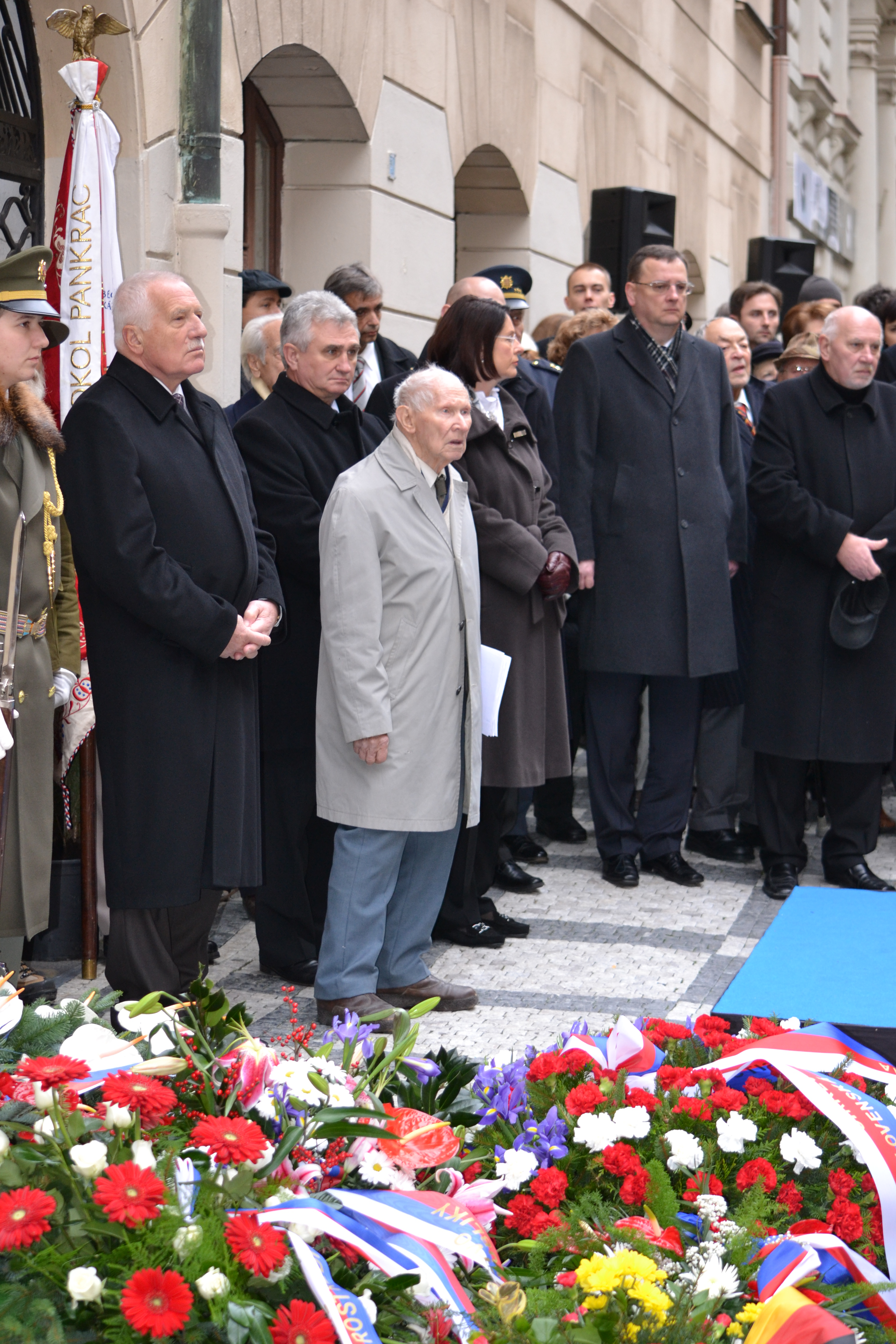 from left (next to the soldier): Václav Klaus, Milan Štěch, Jan Šabršula (standing in front, witness of 17 Nov.1939 events), Miroslava Němcová, Petr Nečas, Pavel Rychetský